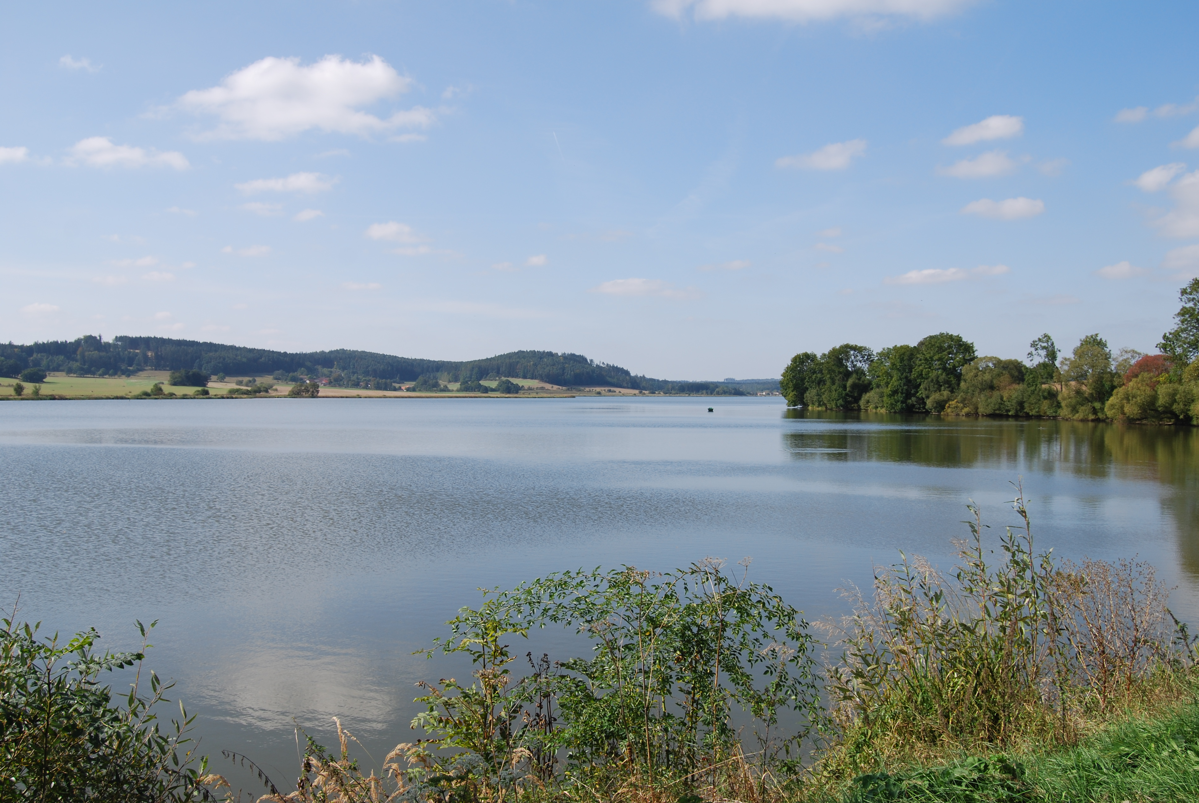 Labuť pond near Myštice village, Strakonice district in the Czech Republic.